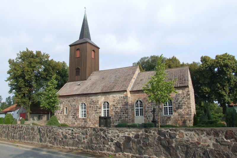 Church Sputendorf (rural district Potsdam-Mittelmark, Germany). Version with higher resolution is available.